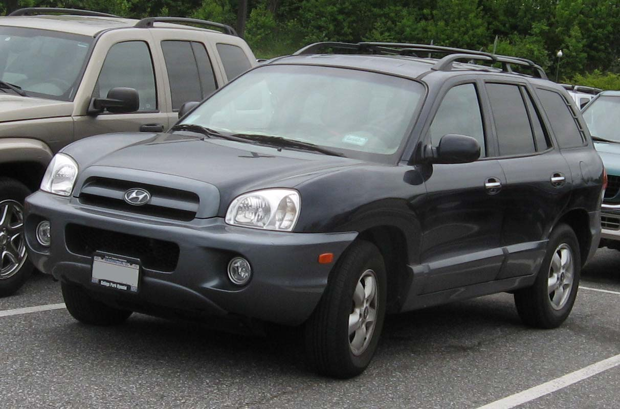 2005-2006 Hyundai Santa Fe photographed in USA.